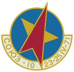 Soyuz-10 collection pin. Note: This is not official patch, this file was redrawn from commercial pin, which had been selling to common citizens (for example).